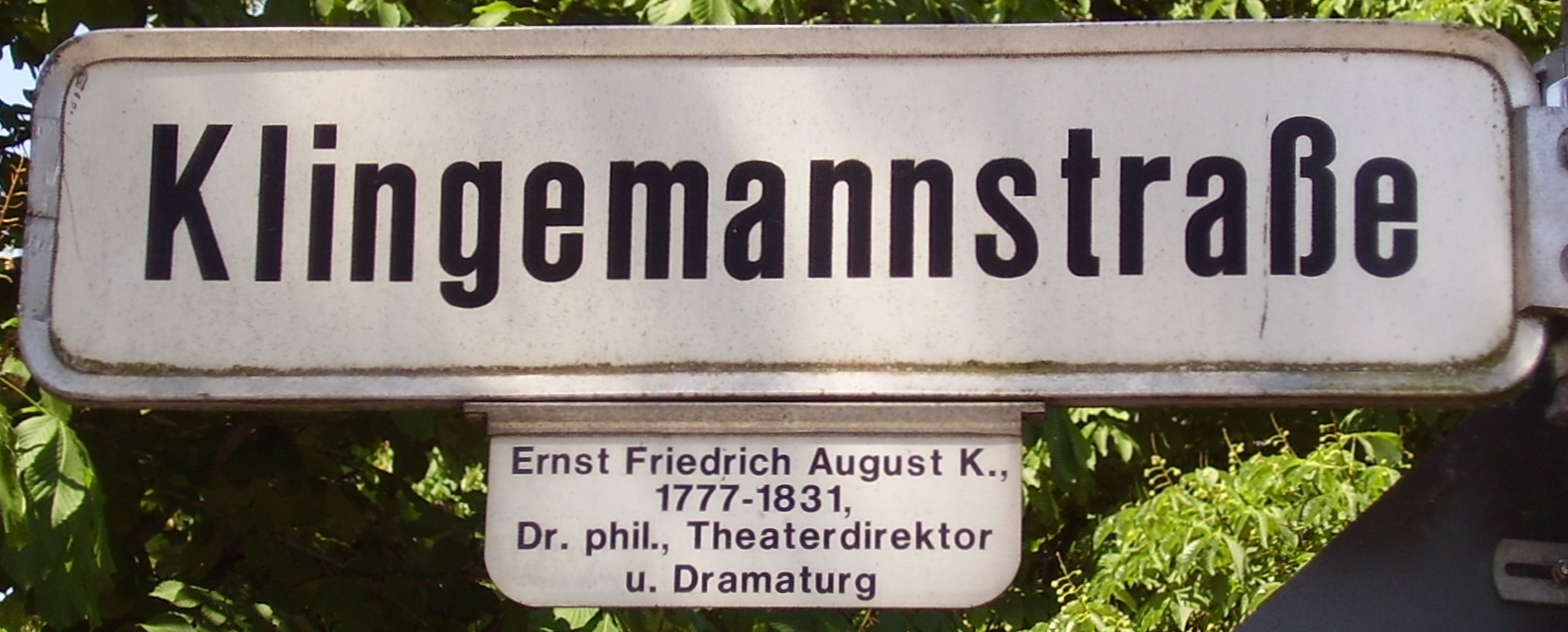 Braunschweig (City) — Klingemannstr. — Street sign